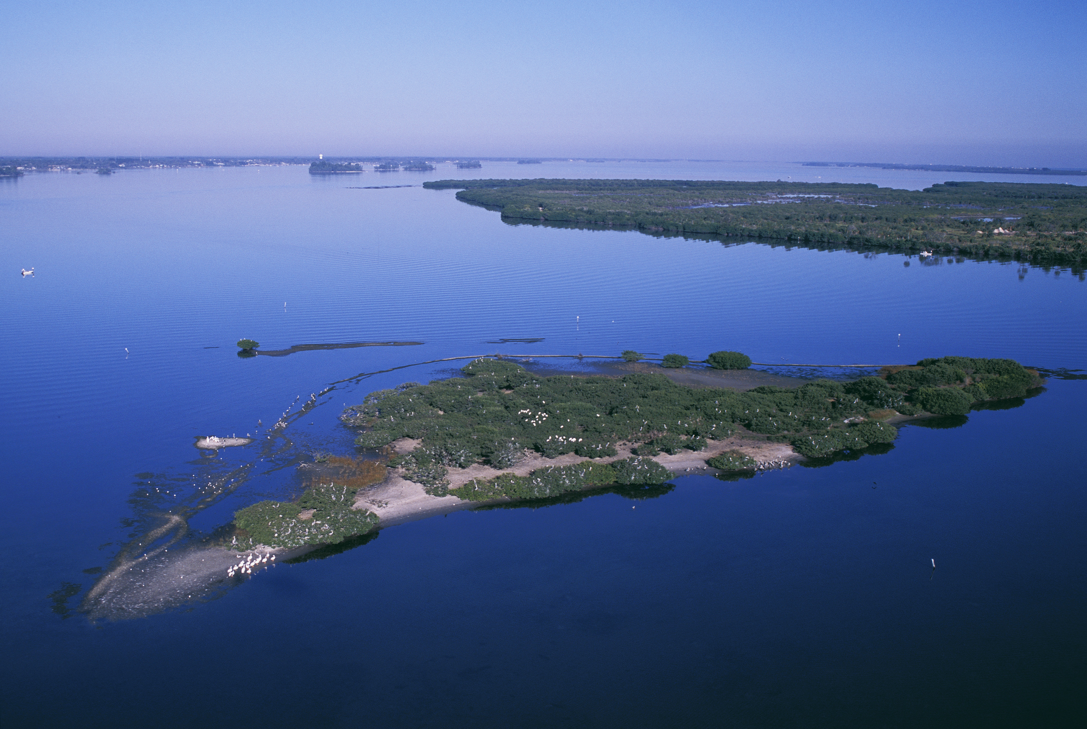 Pelican Island National Wildlife Refuge